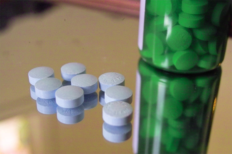 This is a photograph of a bottle and some of generic Fioricet that I took. This is a (legal) prescription for generic Fioricet 50/40/325 (Butalbital 50mg, Caffeine 40mg, Acetaminophen 325--Overand 17:18, 20 February 2006 (UTC)